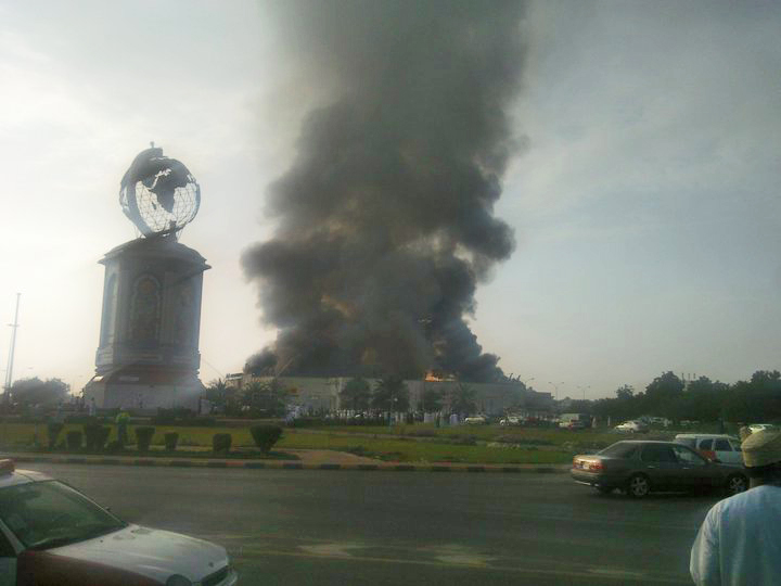 As per 2011 Omani Protests, protesters set ablaze to the Lulu hypermarket in Sohar as protests continued for a 3rd day (after 2 protesters were killed a day before)